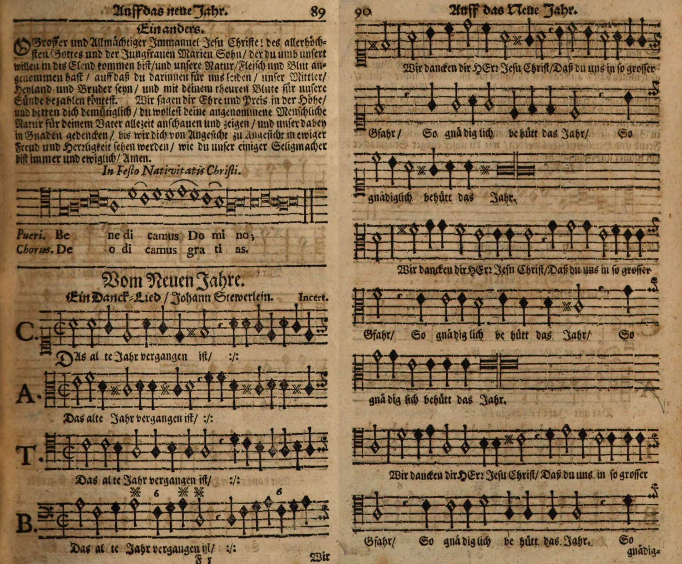 The first two pages of Das alte Jahr vergangen ist set to the melody of Johann Steuerlein from the Neu Leipziger Gesangbuch